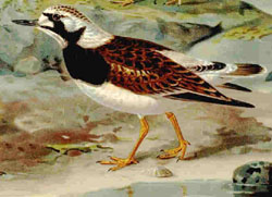 Ruddy Turnstone from 1905 German enc.